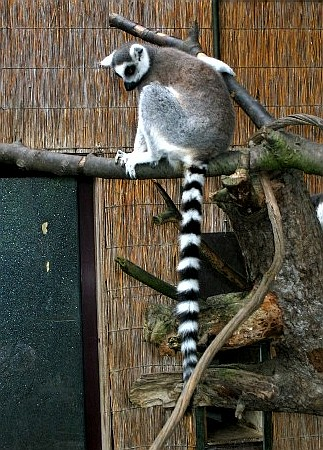 Ring-tailed lemur